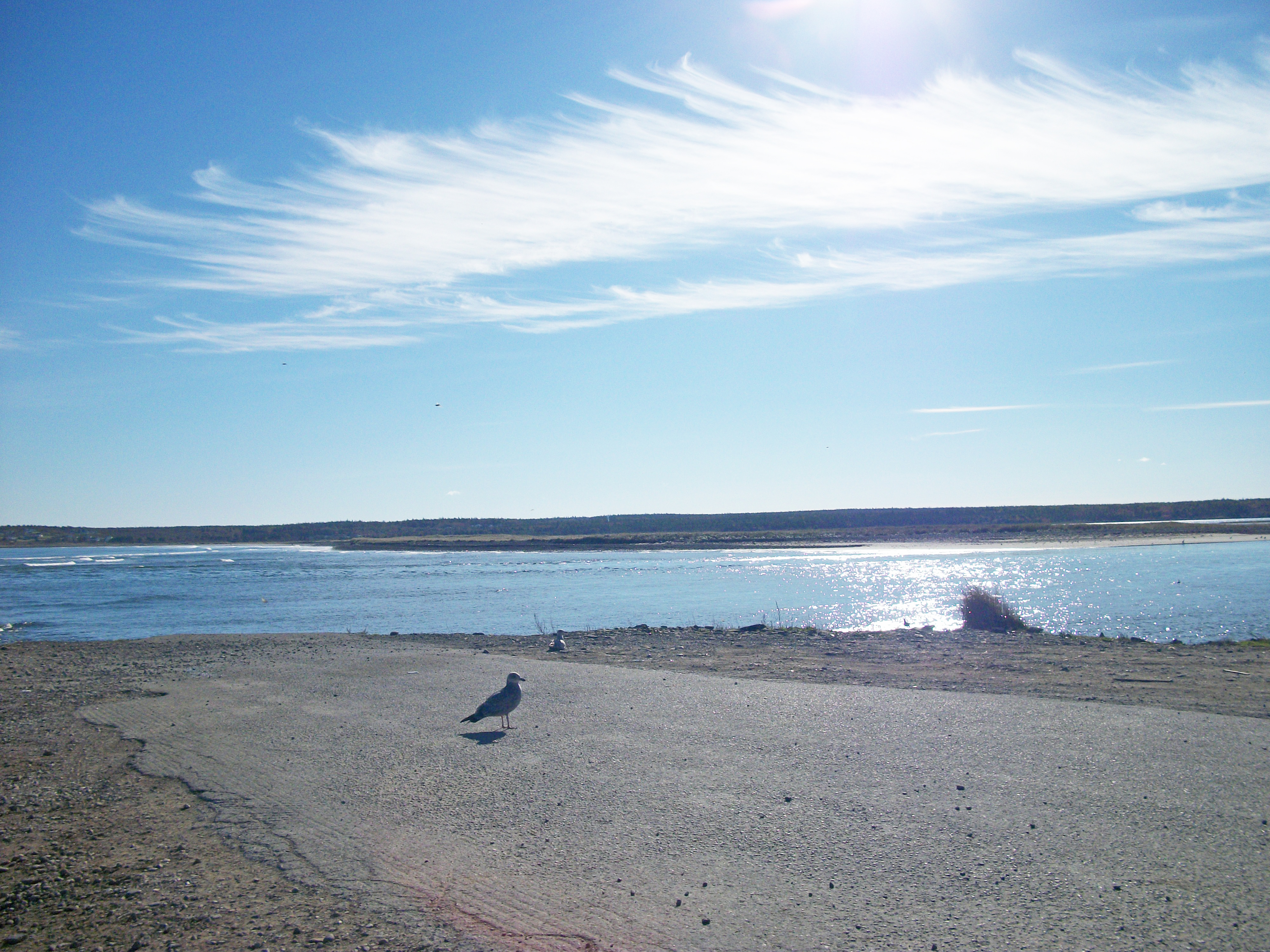 The expansive shoreline of Glace Bay at the end of South Street. The Glace Bay Healthcare Facility and a seniors manor are nearby.